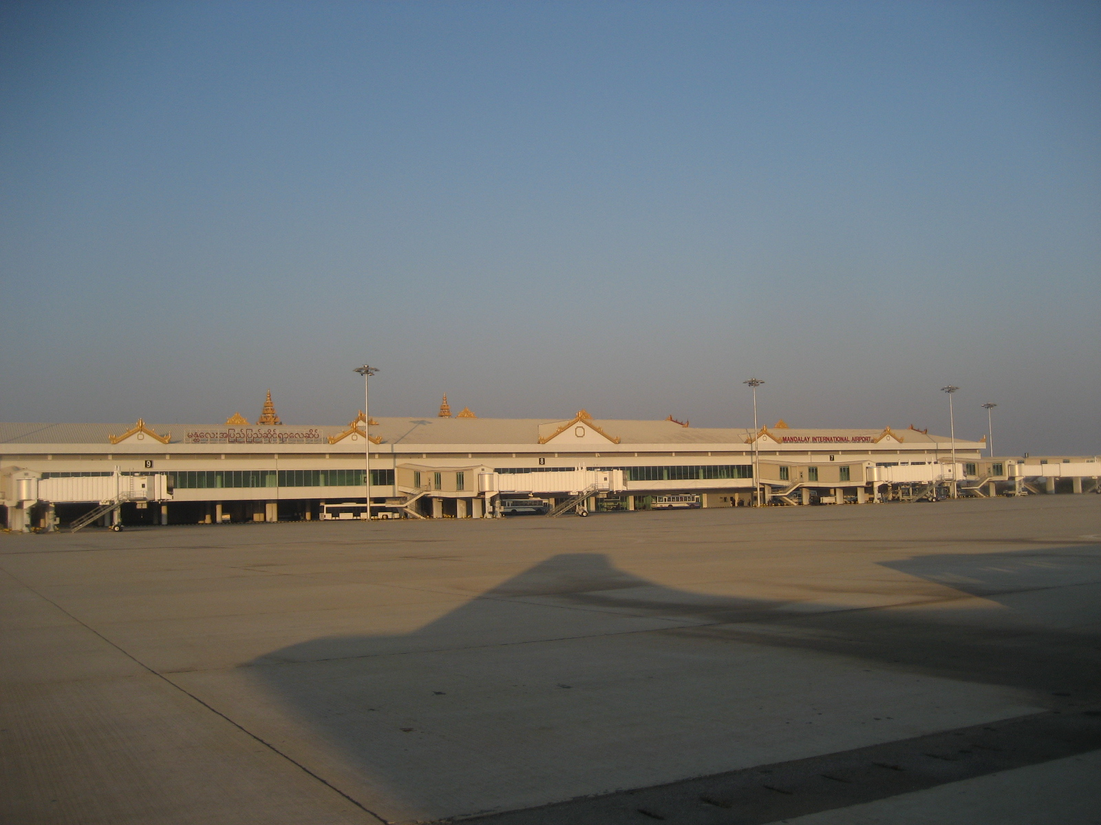 Mandalay International Airport from the tarmac.